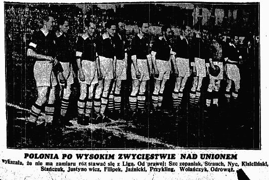 Polish association football team Polonia Warszawa before league game in 1939.